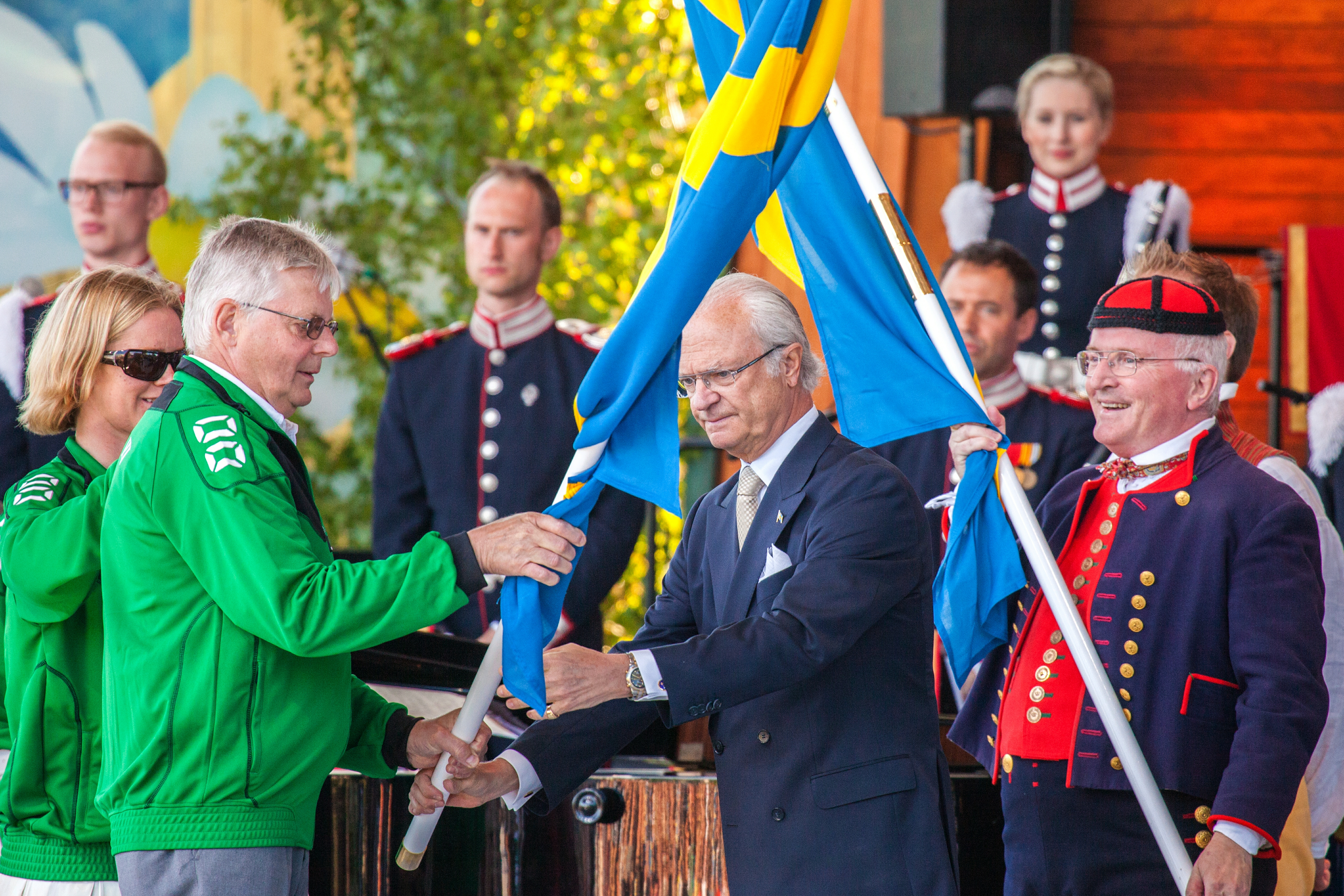 Swedish National Day 6th of June 2013